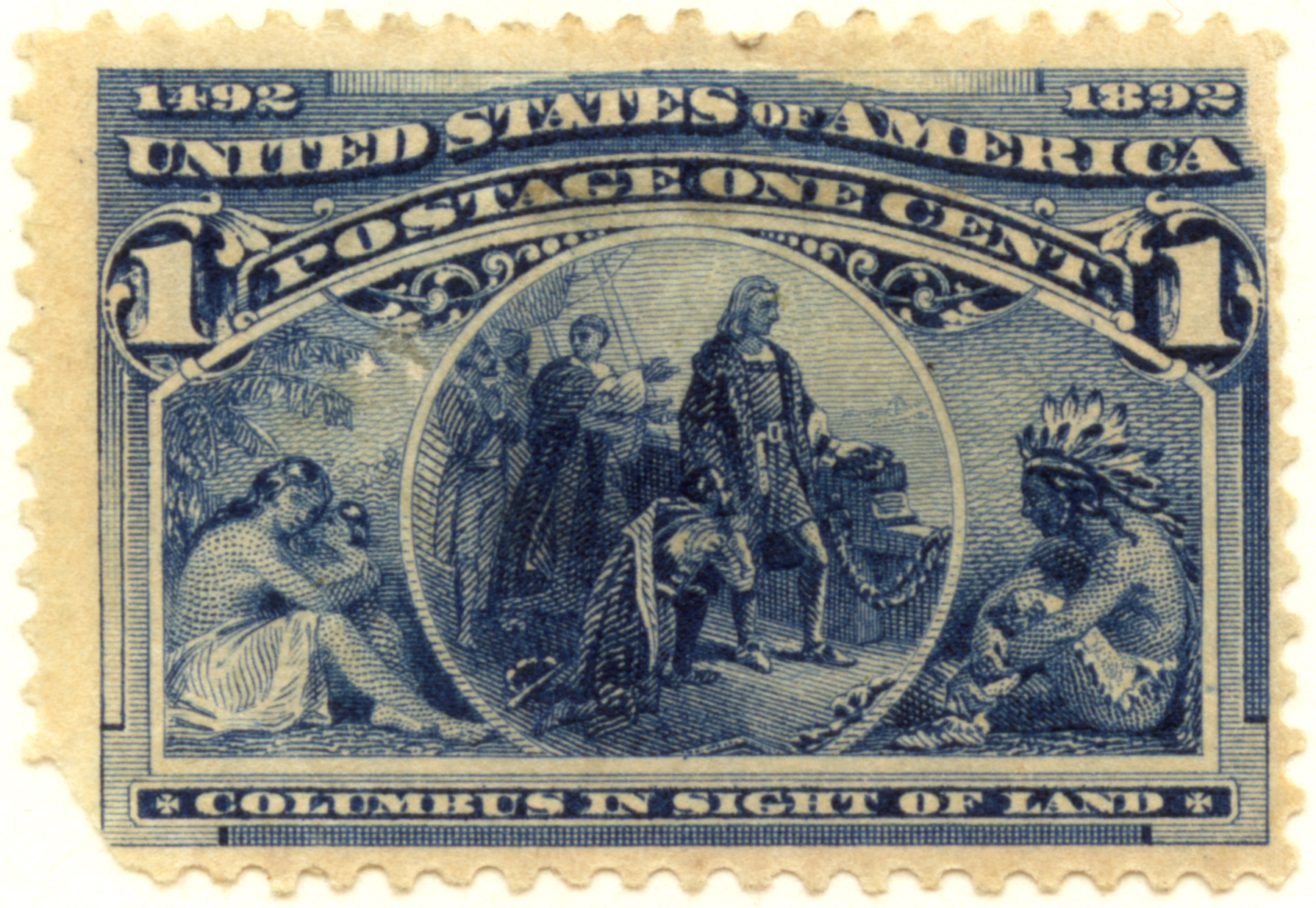 1-cent 1893 commemorative United States postage stamp, depicting Christopher Columbus in sight of land. Part of the World Columbian Exposition series of 1893.